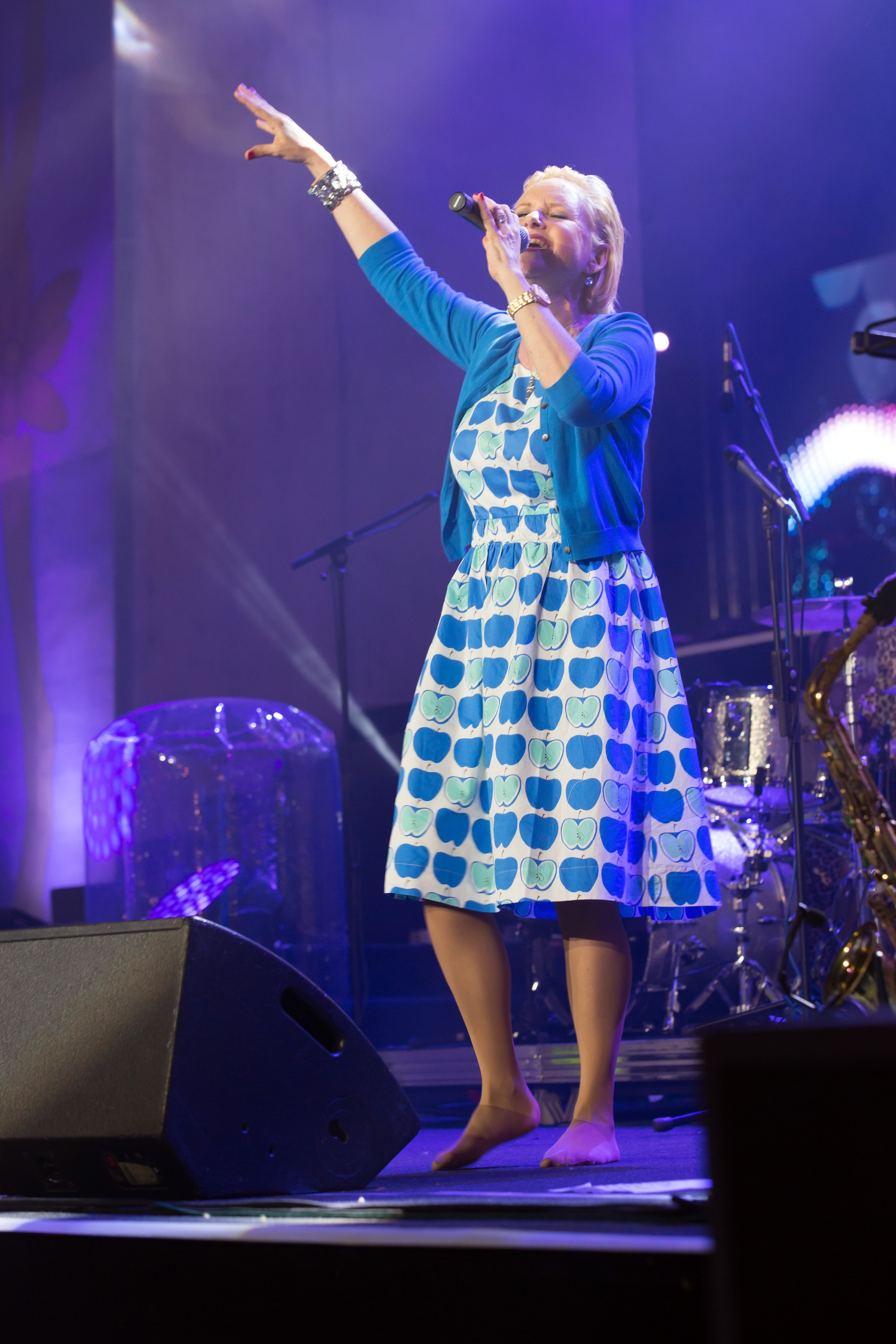 Elisabeth "Lizzi" Engstler with The Bad Powells, concert at Eurovision Village on Rathausplatz, a public event location of the Eurovision Song Contest 2015 in Vienna, Austria.